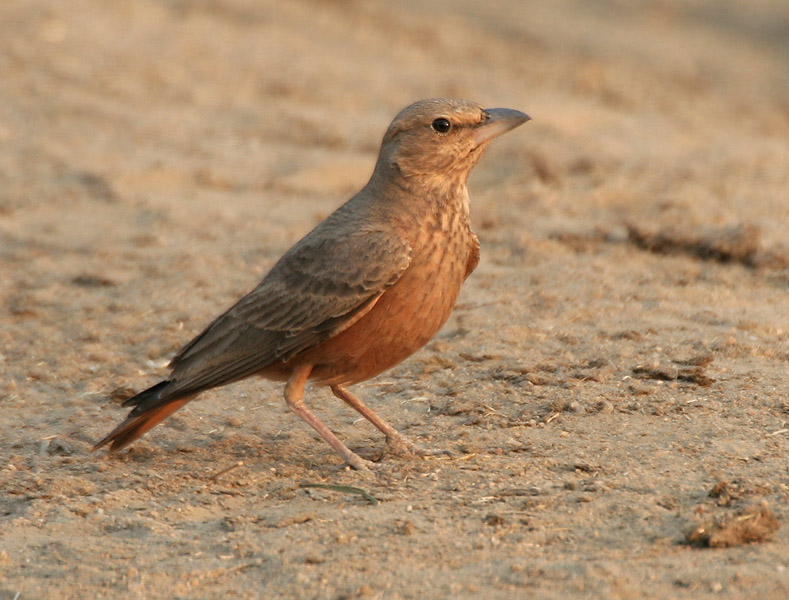 Rufous-tailed Lark Ammomanes phoenicurus in Kawal Wildlife Sanctuary, Andhra Pradesh, India.